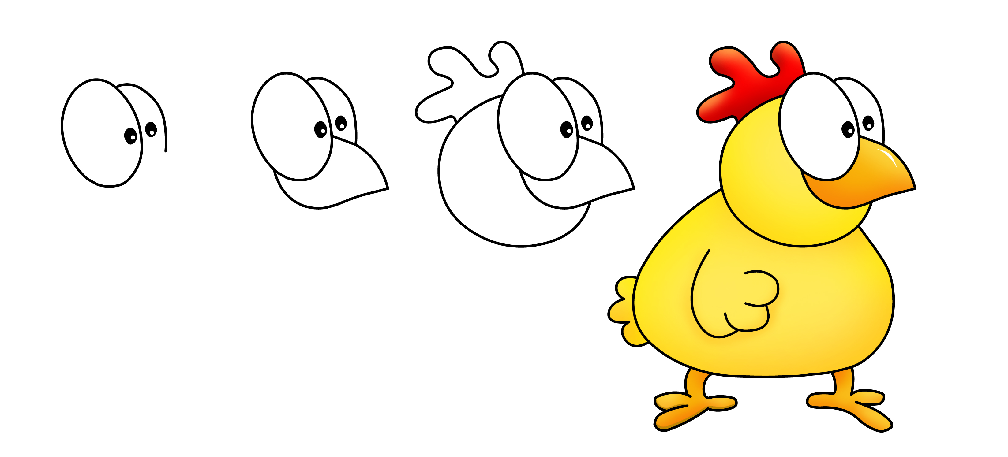 Drawing Easily is a drawing technique by Amit Offir